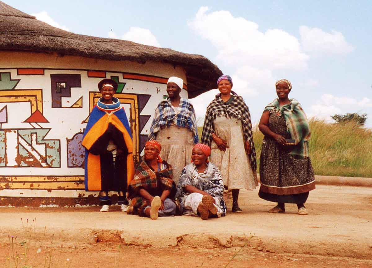 Women at the Ndebele Cultural Village, Loopspruit, Gauteng, South Africa. Photograph taken by user 1999, Loopspruit.